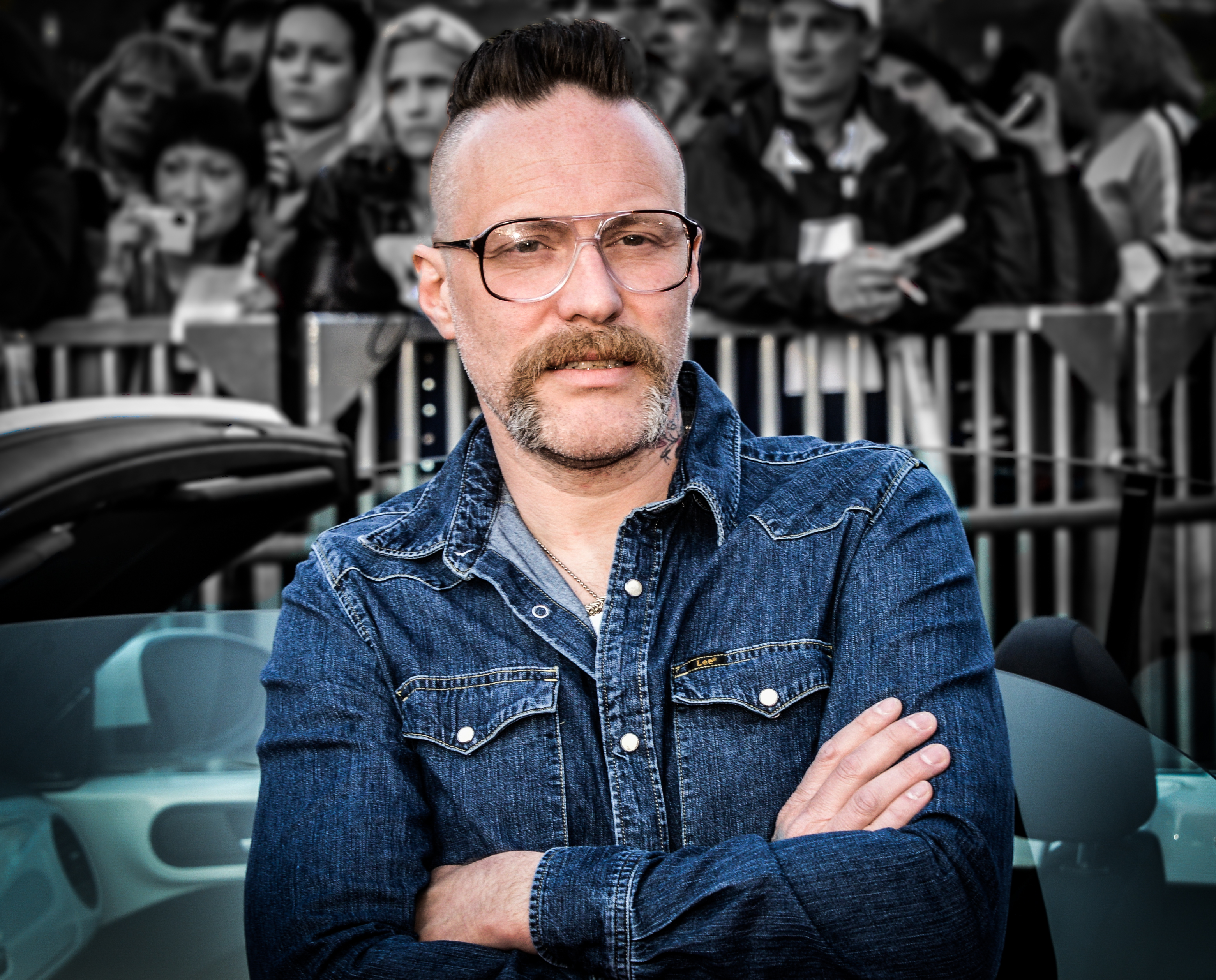 Ralf Gyllenhammar during the opening of ABBA: The Museum May 6, 2013.